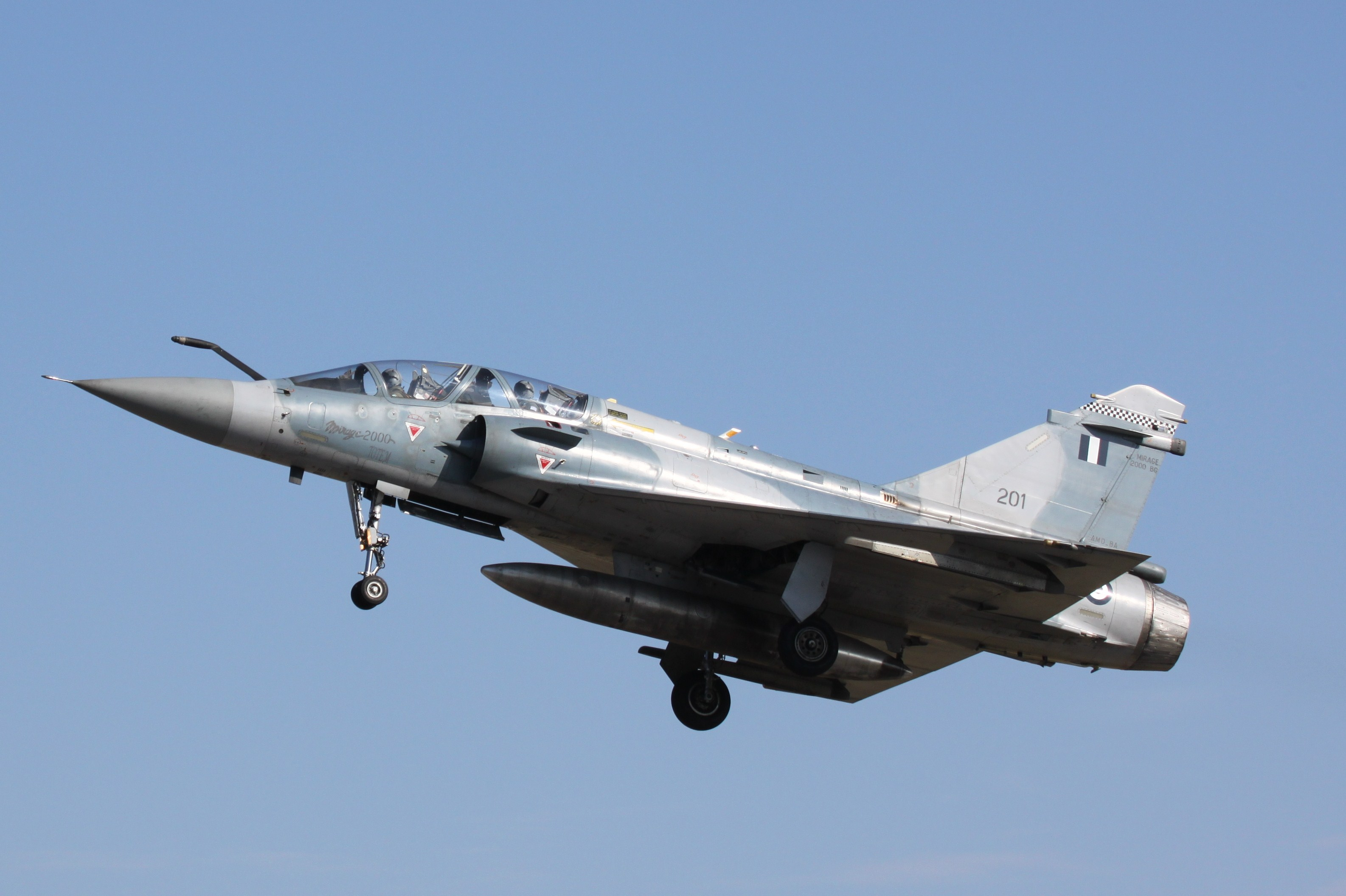 One of the based Mirage 2000Bs touching down